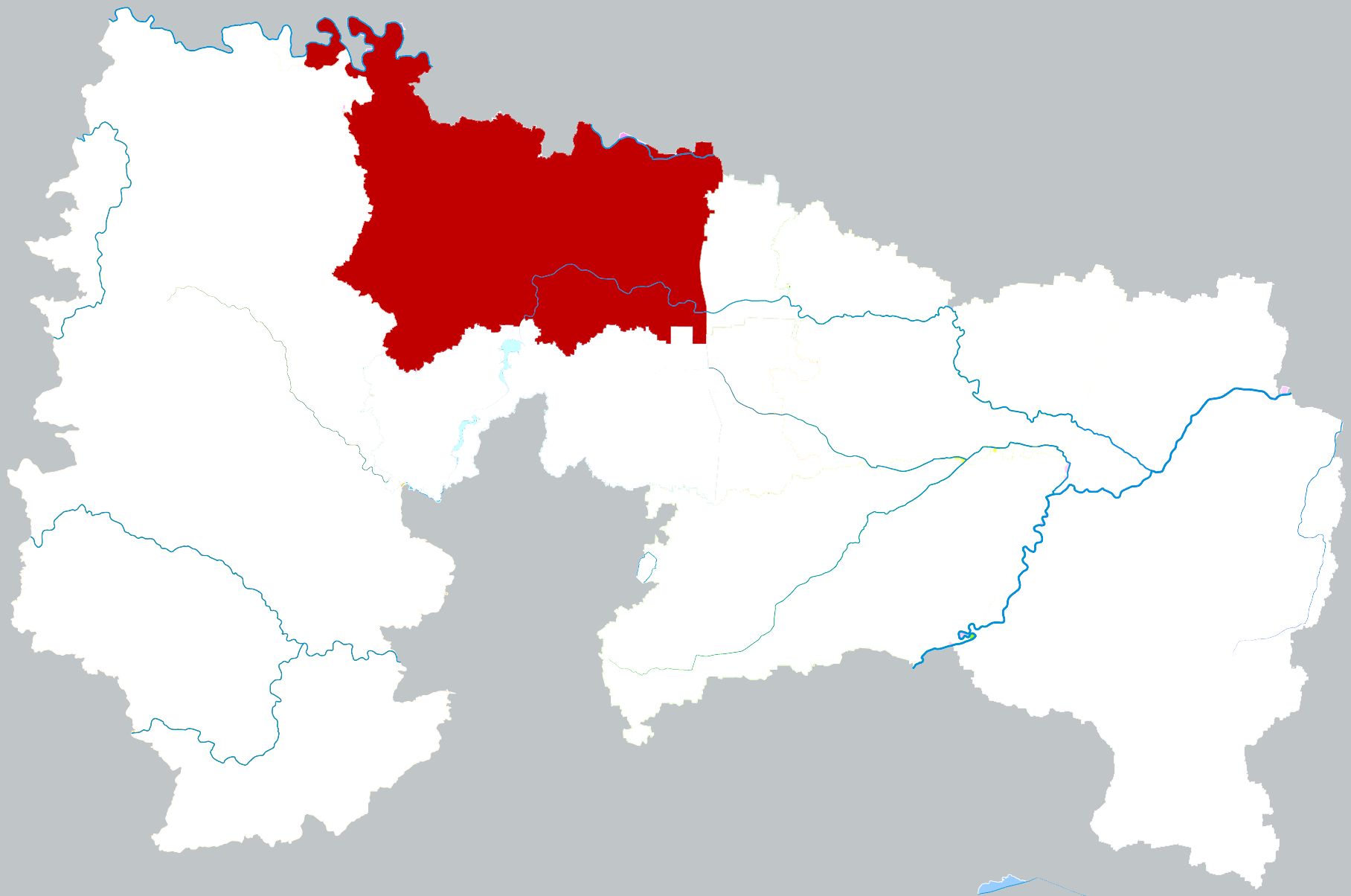 Location of Yindu district in Anyang city, China